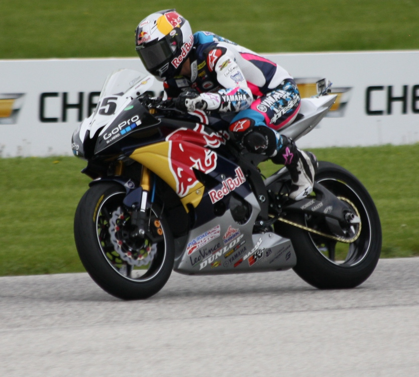 AMA Pro rider J. D. Beach competing on his Sportbike at the Subway SuperBike Doubleheader weekend race at Road America on Sunday.